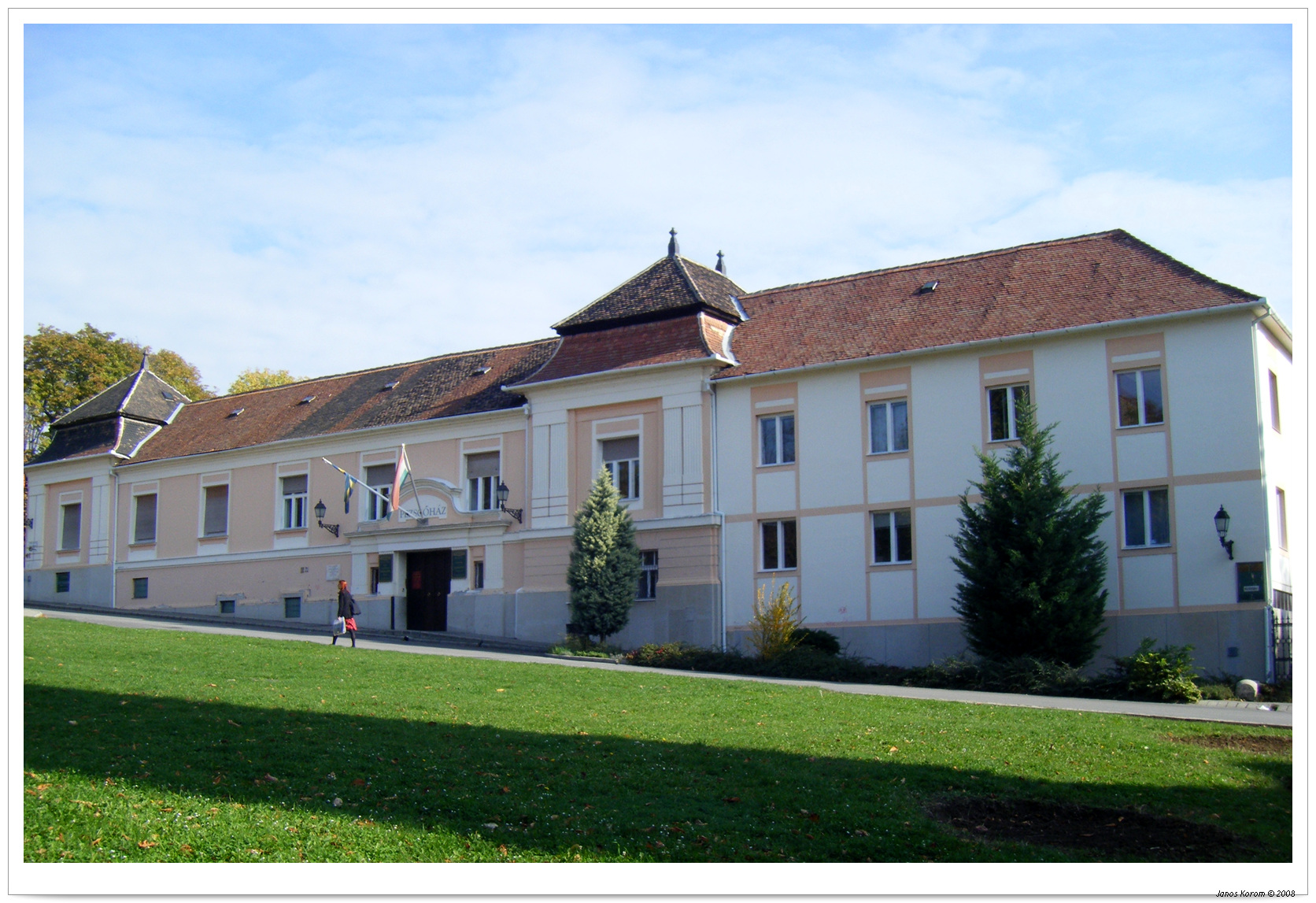 Pezsgo Haz, Pécs, Hungary